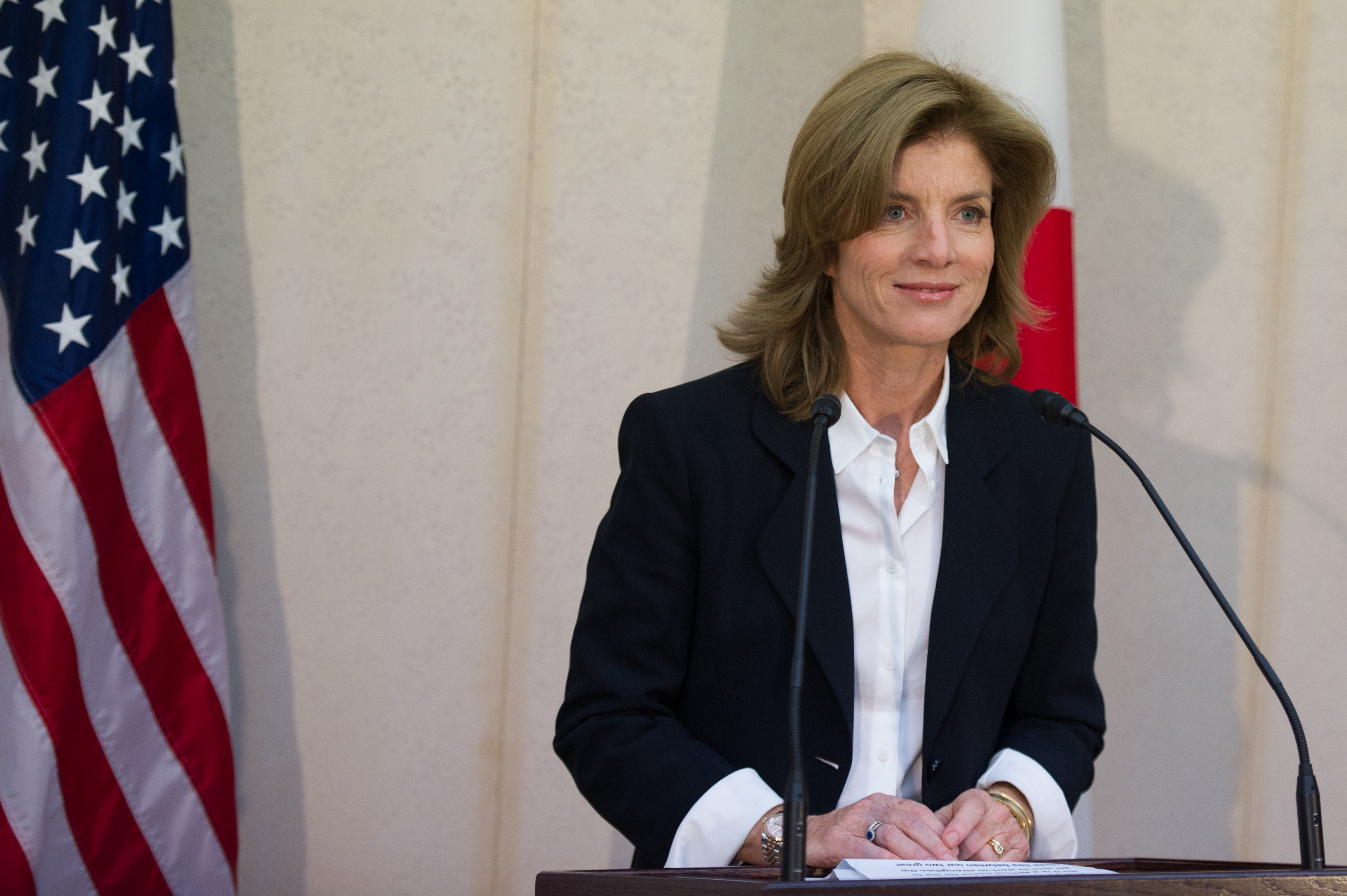 NARITA, Japan (November 15, 2013) U.S. Ambassador Caroline Kennedy makes her first statement after arriving in Japan. [State Department photo by William Ng/Public Domain]